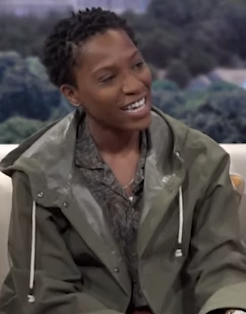 This is a photo of actress Jonica T. Gibbs.